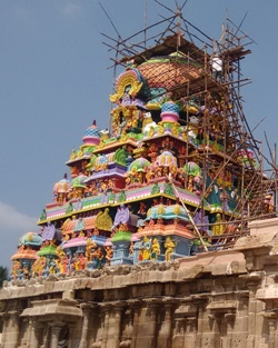 பழையாறை சோமநாதர் கோயில் Palayarai Somanathar Temple